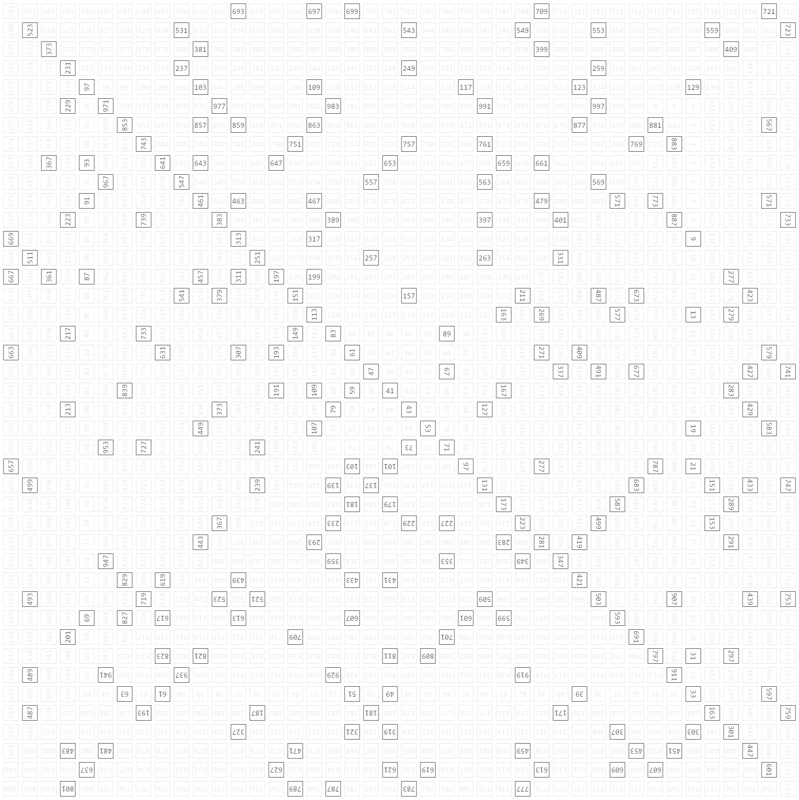 Ulam spiral starting with 41